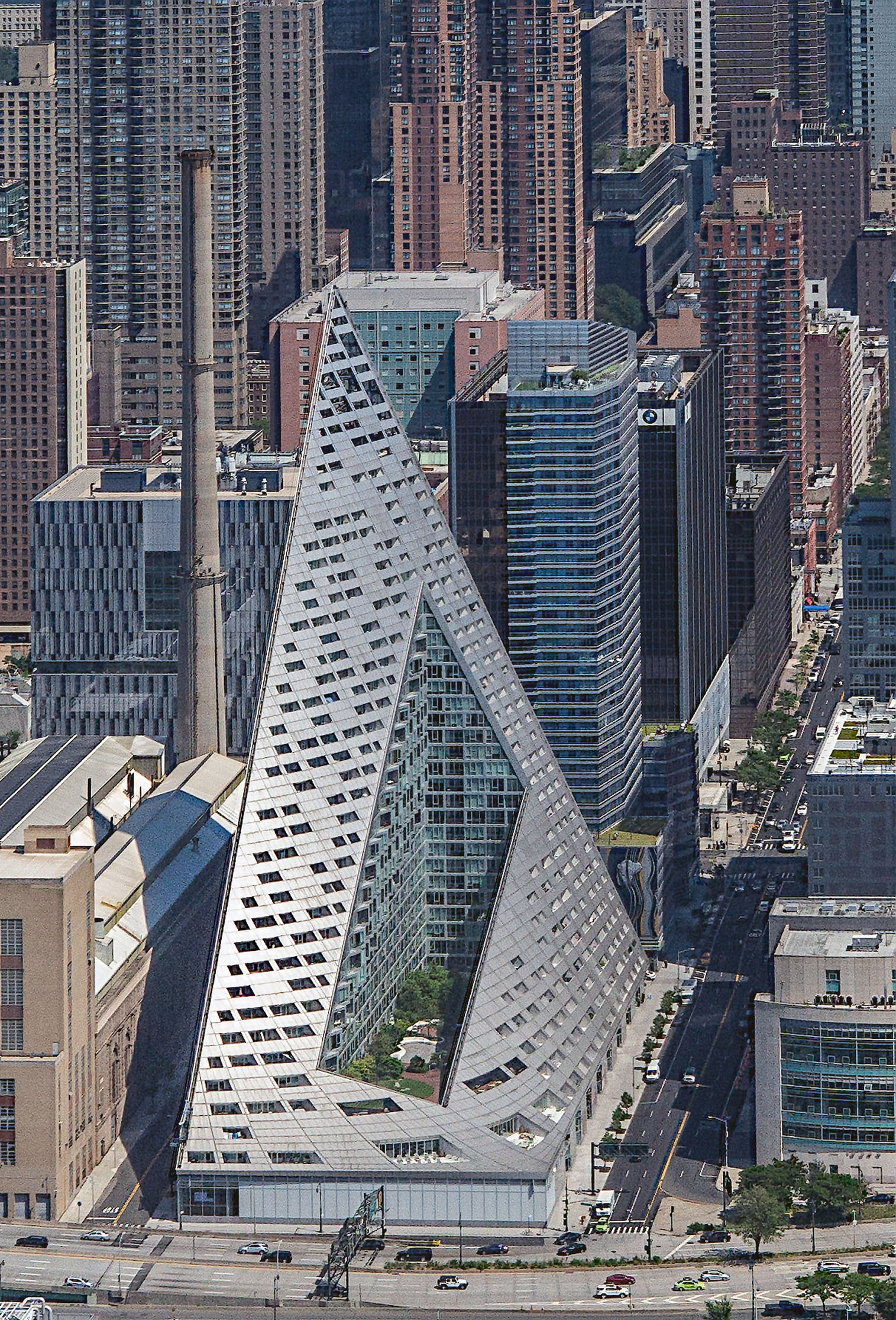 Aerial photograph of recent completed pyramidal apartment building along the Hudson River in the Hells Kitchen/Chelsea neighborhood of Manhattan.